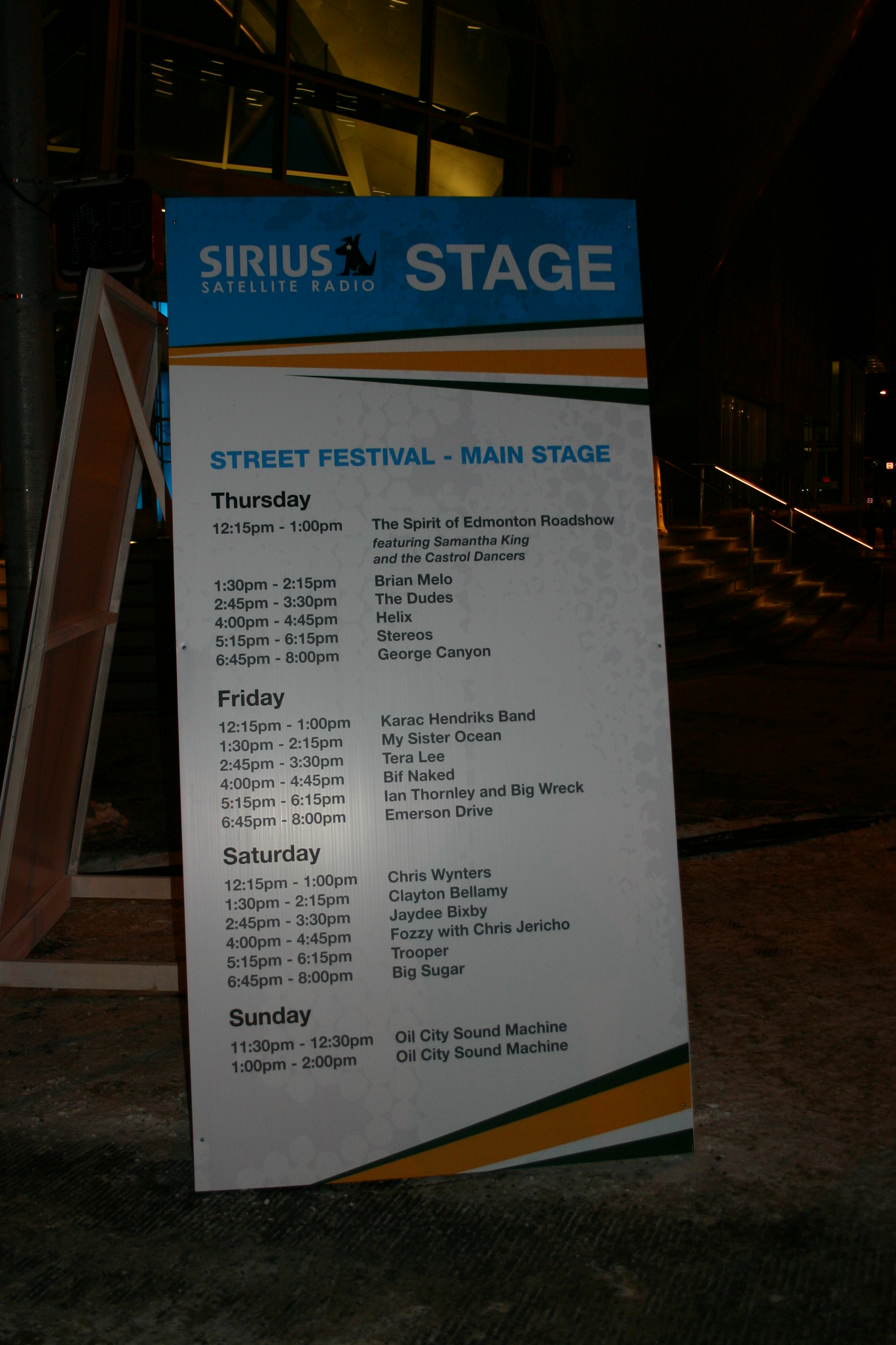 2010 Grey Cup Festival Kickoff